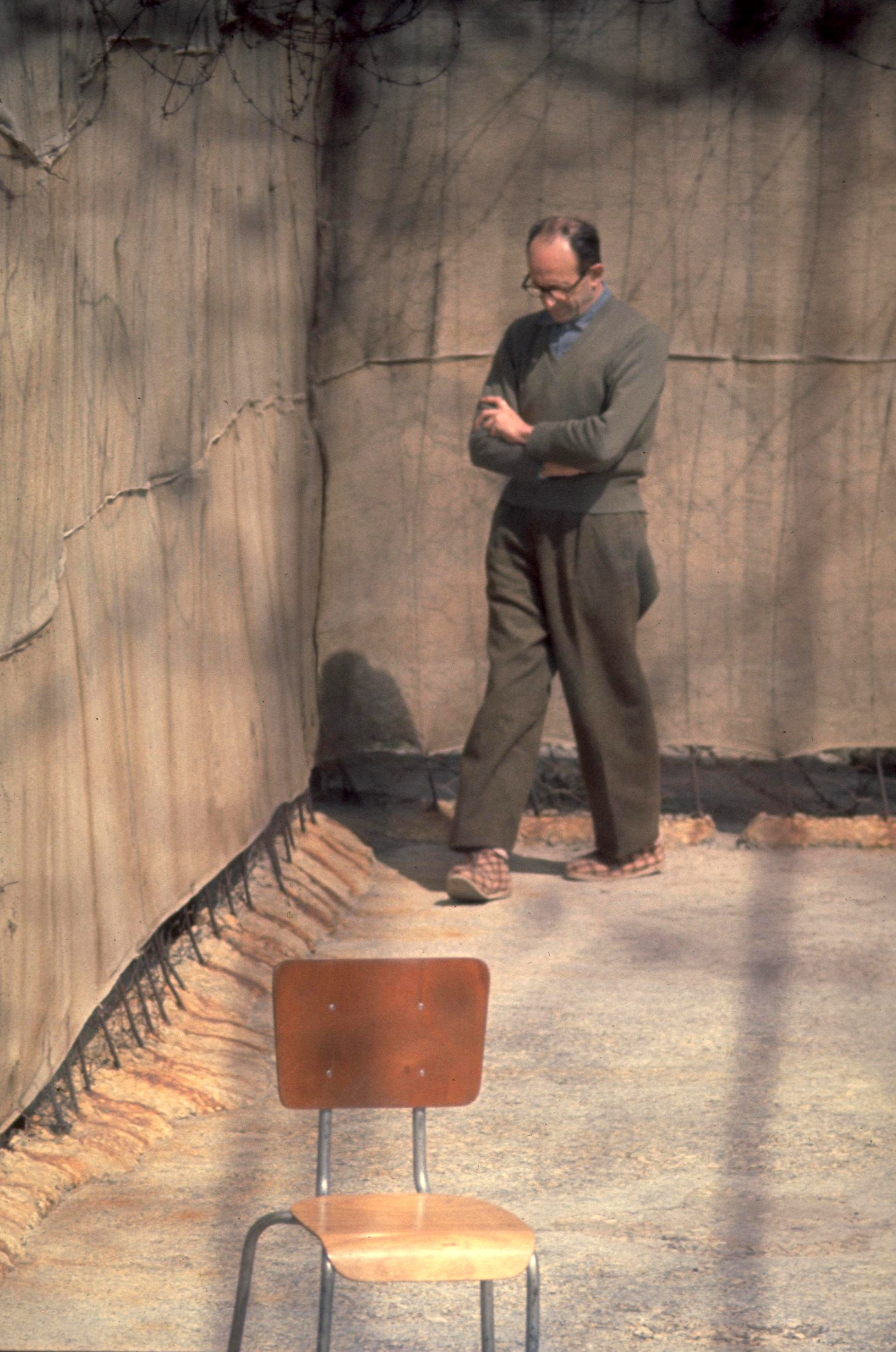 Nazi war criminal Adolf Eichman walking in yard of his cell in Ayalon Prison, Ramla